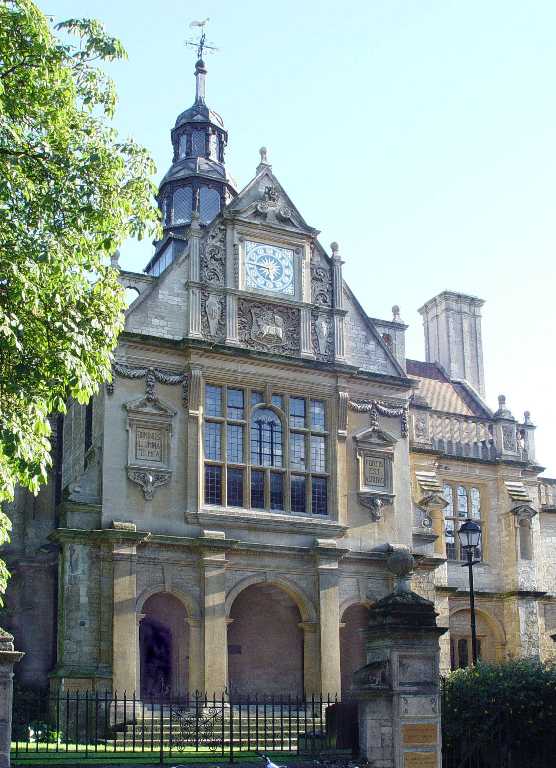 City of Oxford School. View from George Street, Oxford. Note the date of construction, 1880, flanking the arms of the City of Oxford beneath the clock. The underside of the stone staircase leading up to the Hall is visible beneath the central arch.